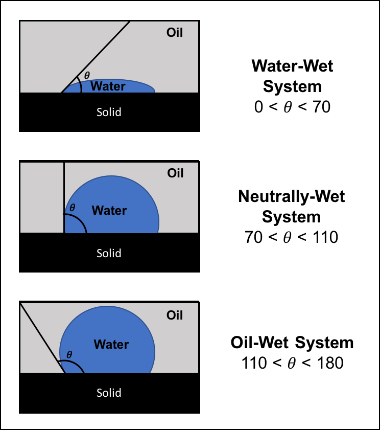 Examples of various interfacial curvatures (contact angles) between a wetting and non-wetting fluid on a capillary surface that leads to a pressure difference between the fluids